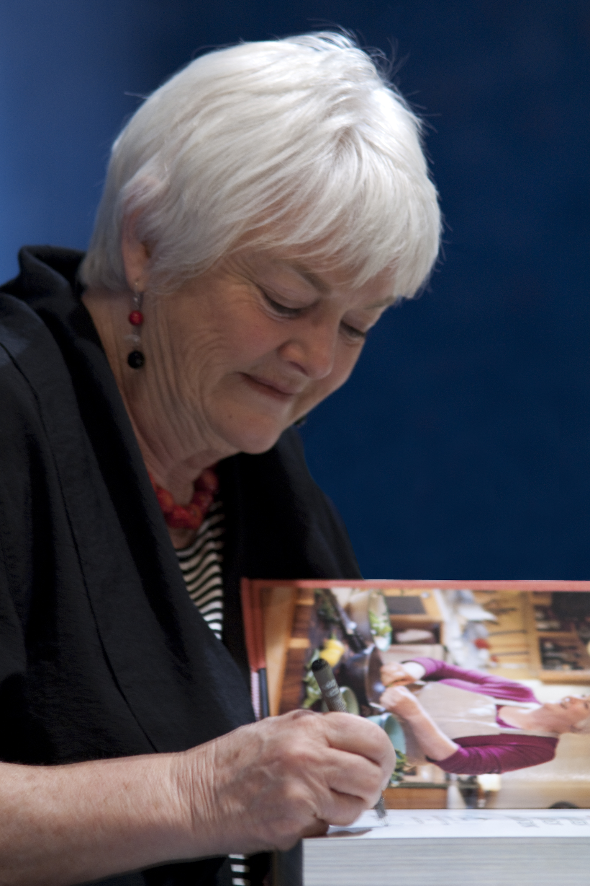 Stephanie Alexander, an Australian cook, restaurateur and food writer, at a book signing in Adelaide, South Australia.